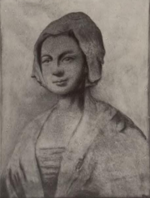 A portrait from the Welsh Portrait Collection at the National Library of Wales. Depicted person: Ann Maddocks – Welsh woman forced to marry